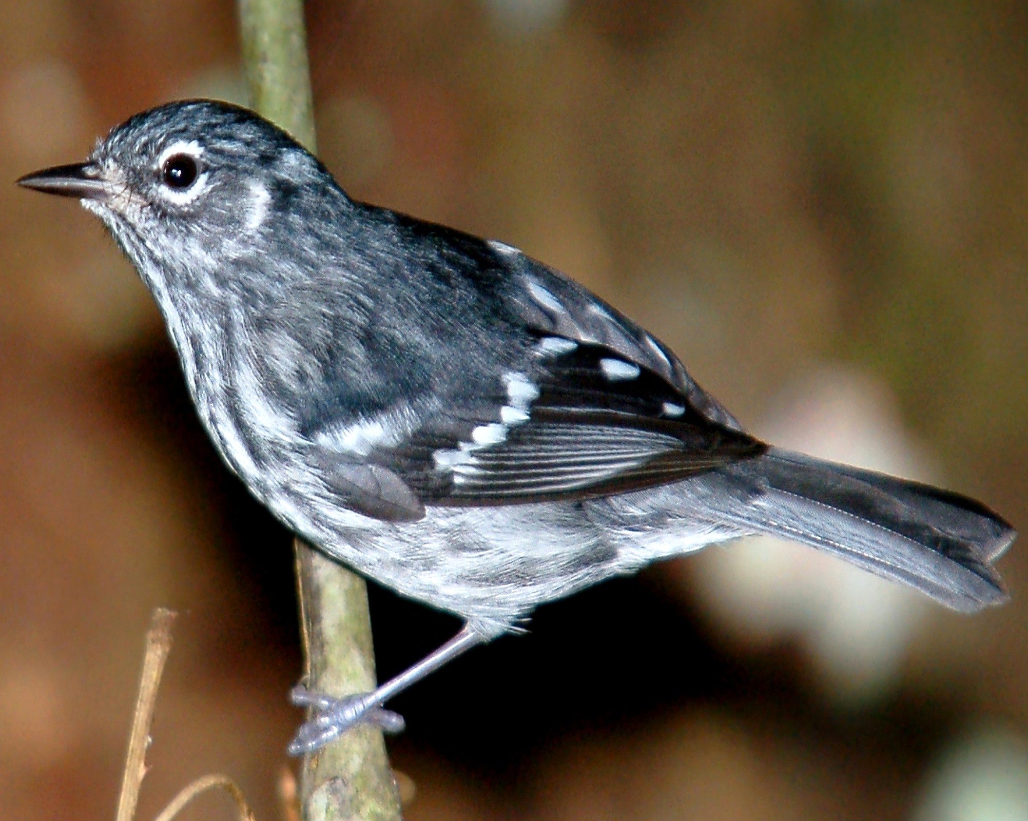 An Elfin-woods Warbler perched on a tree branch